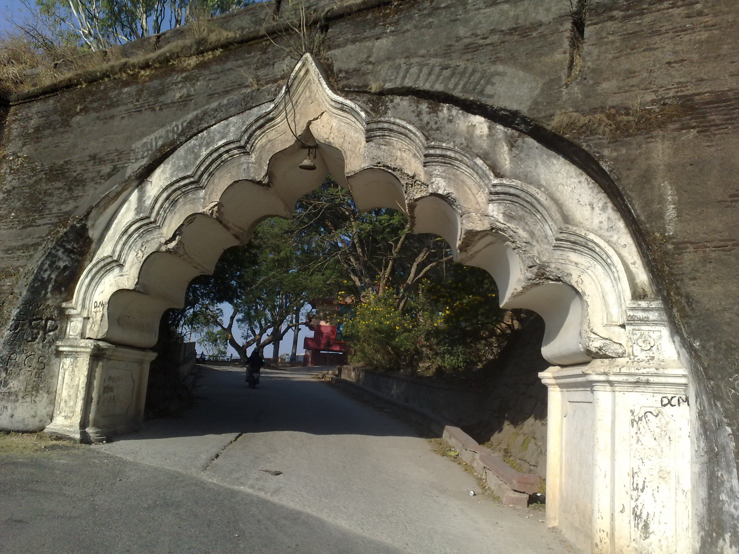 ENTRANCE TO THE TIPU FORT WITHIN WHICH IS THE TIPU PALACE